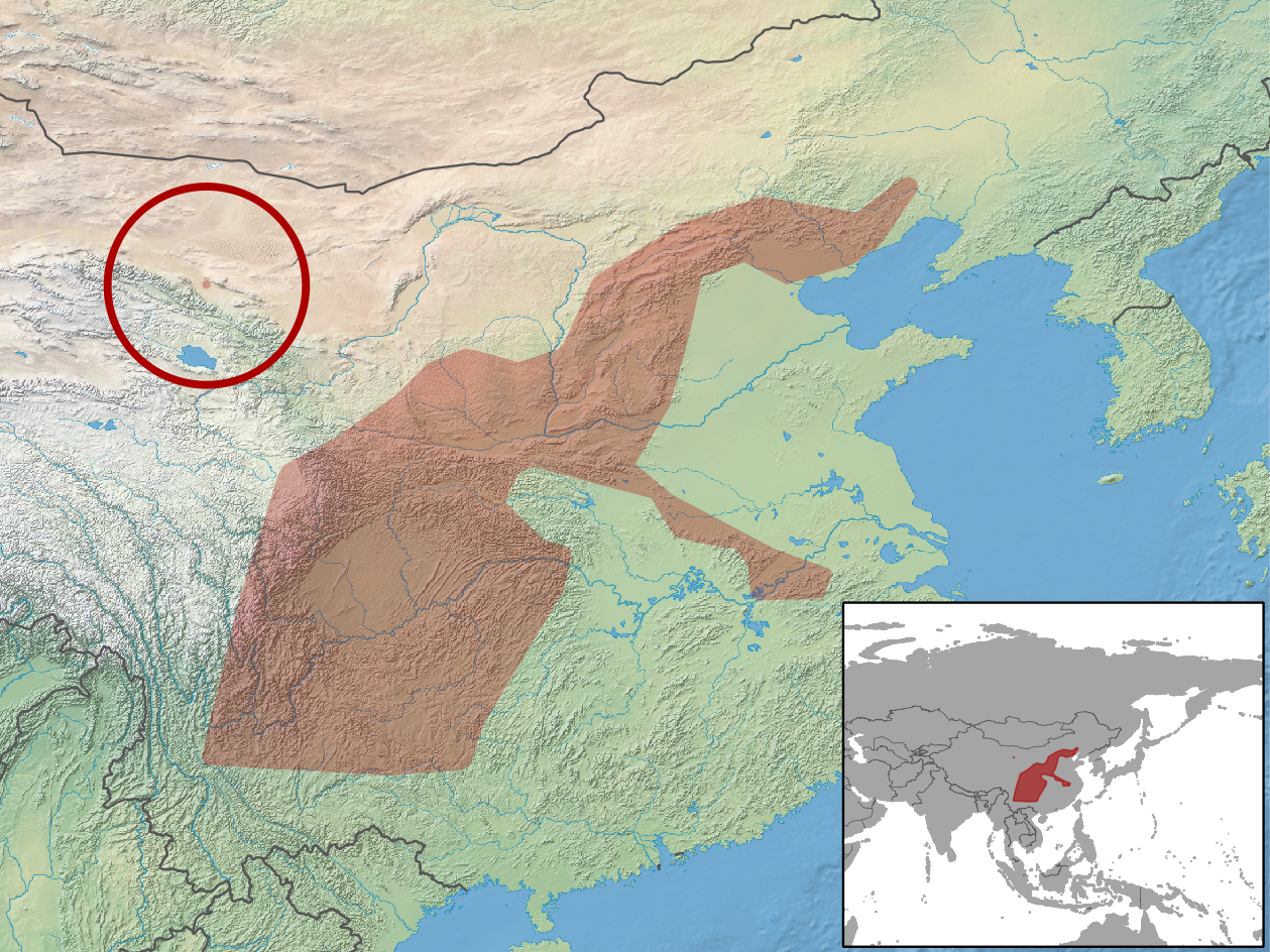 geographic distribution of Sciurotamias davidianus